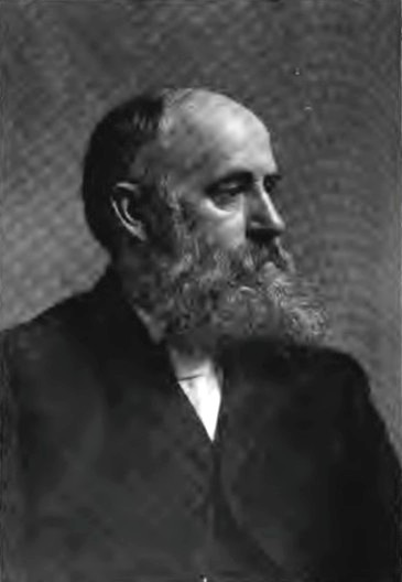 Picture of Horace Scudder, the writer